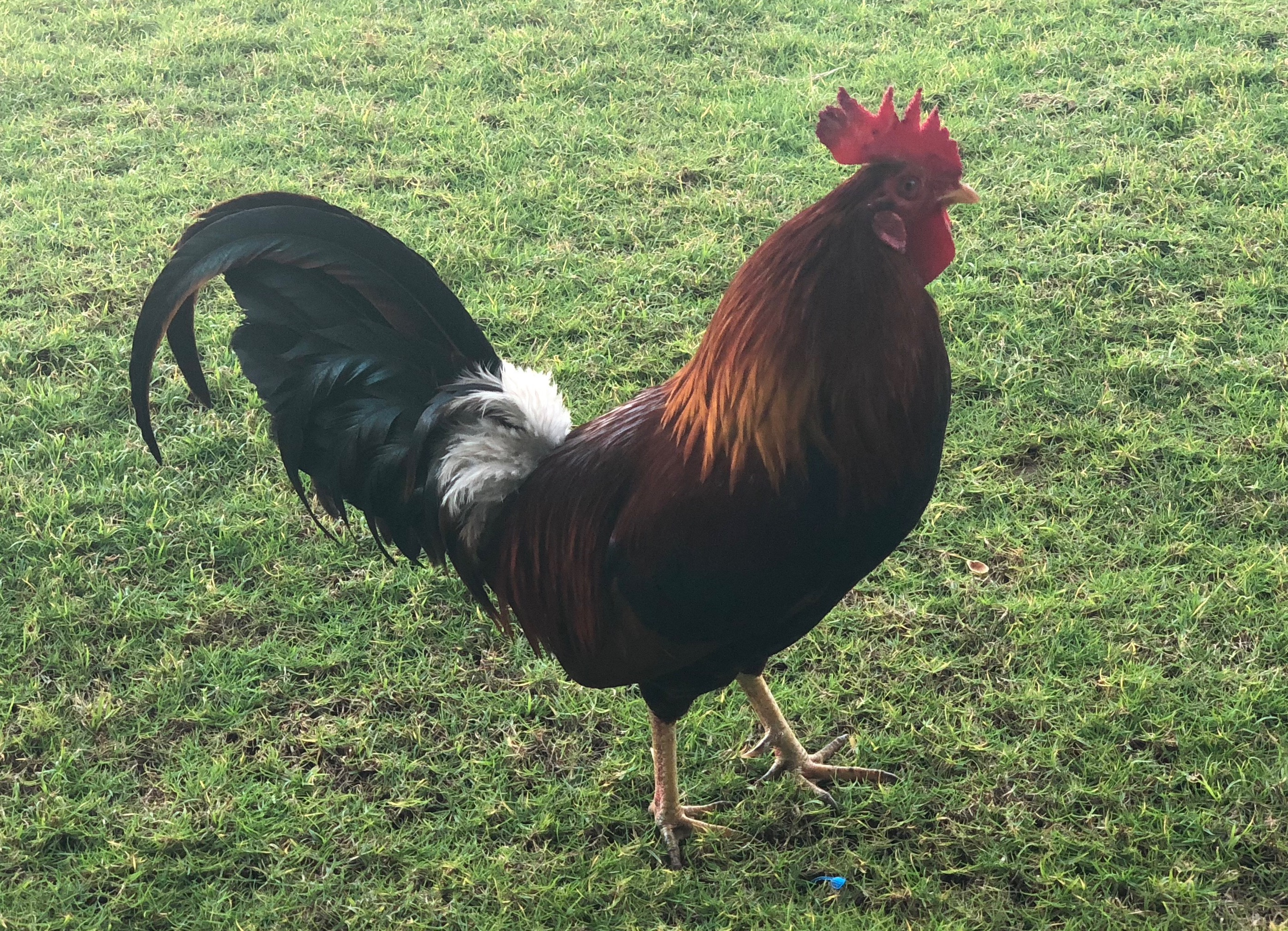 Wild rooster on the Hawaiian island of Kauai